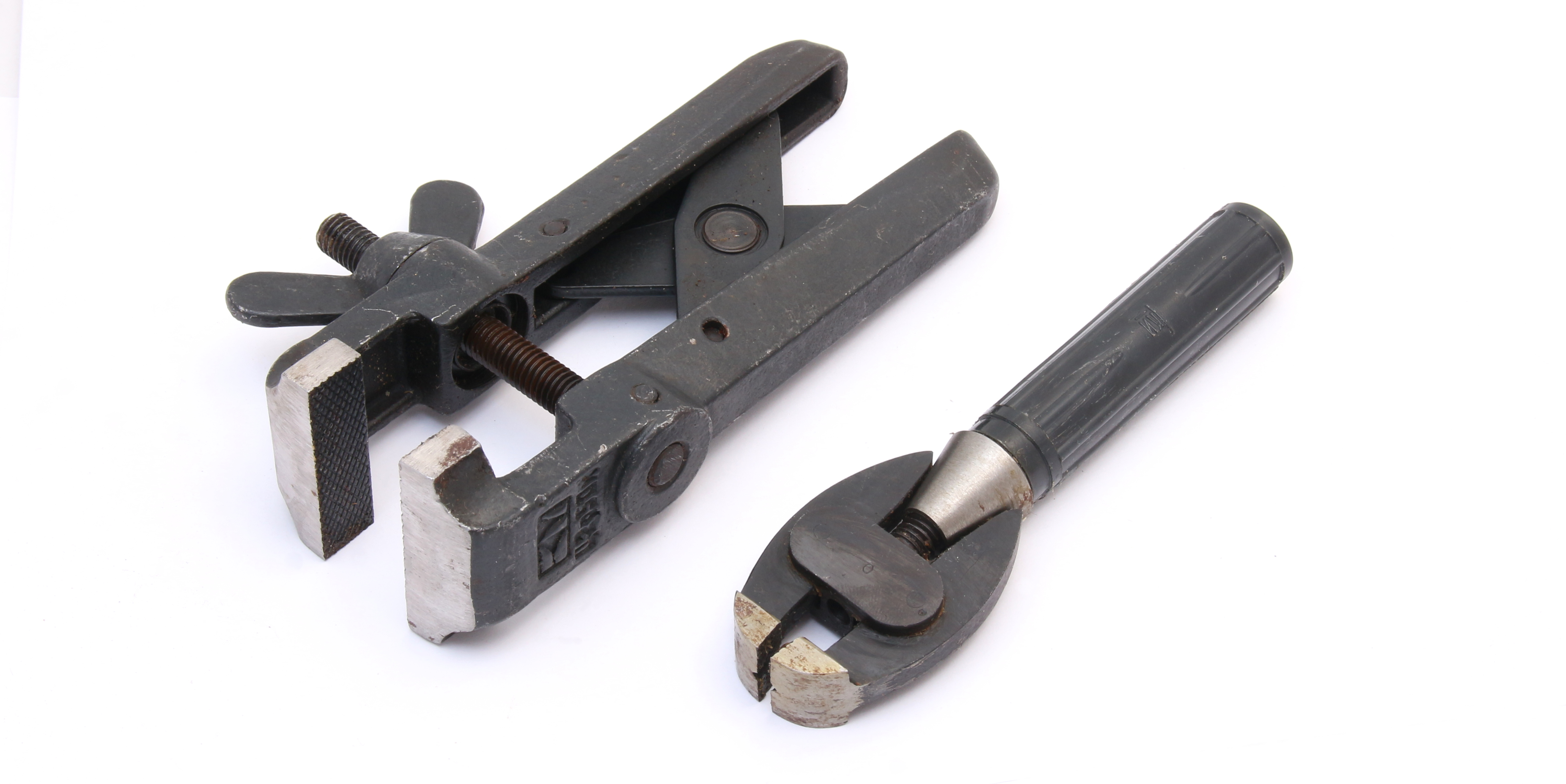 Hand vices made in Soviet Union. At right - vice is made by "Krasniy Instrumentalshik" factory about 1975.